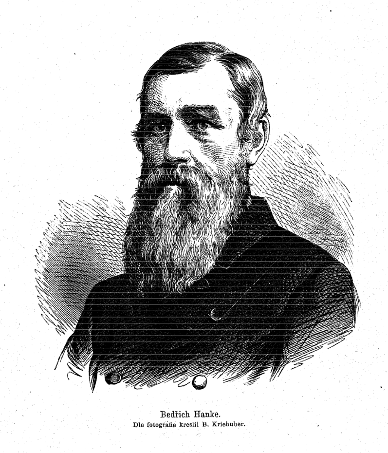 Potrait of Bedřich Hanke (1817-1876), Czech lawyer and politician.